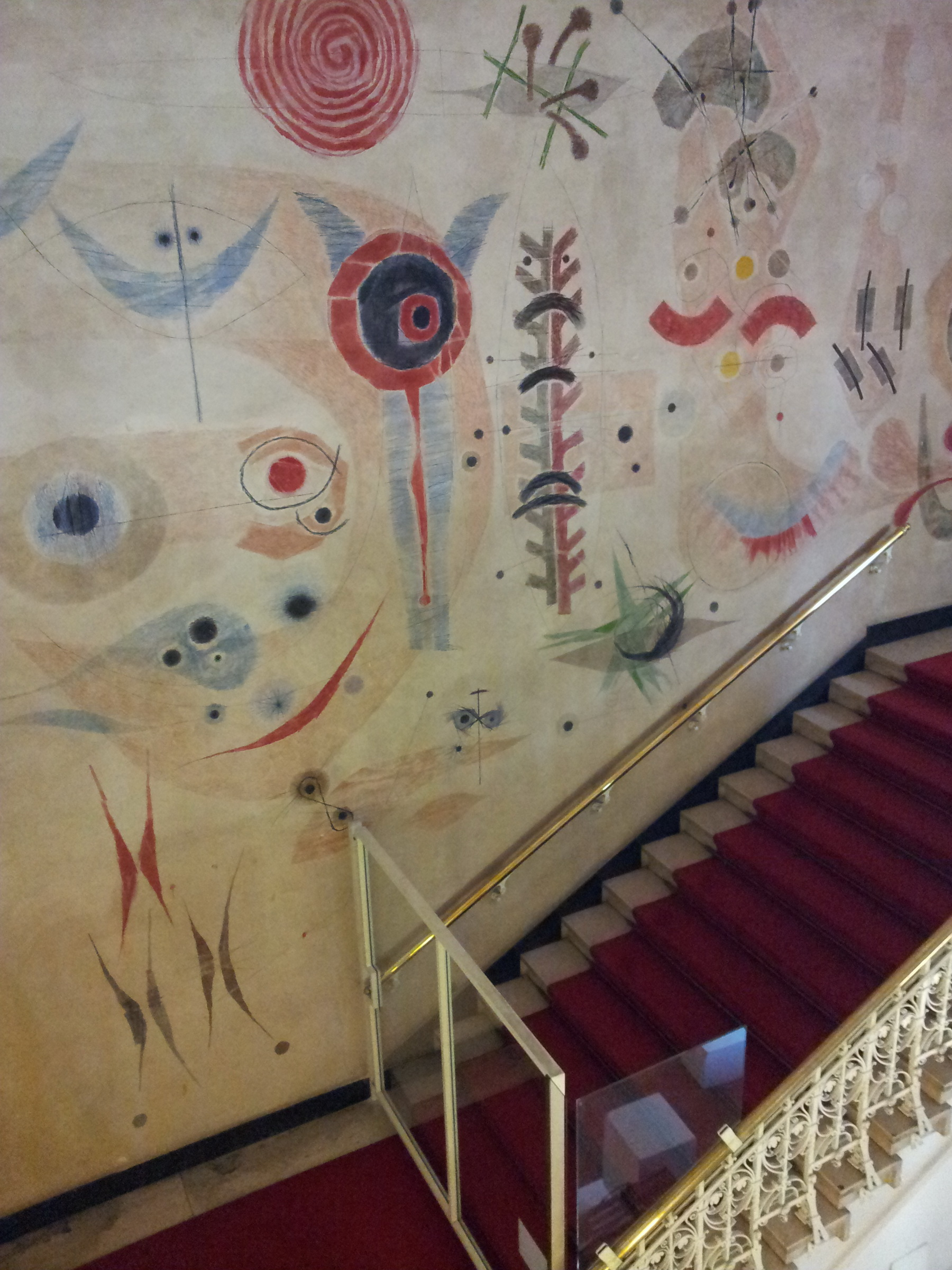 Amsterdam, the Netherlands. Staircase on the south side of Stadsschouwburg, Amsterdam's municipal theatre. The abstract mural is by Anton Rovers.